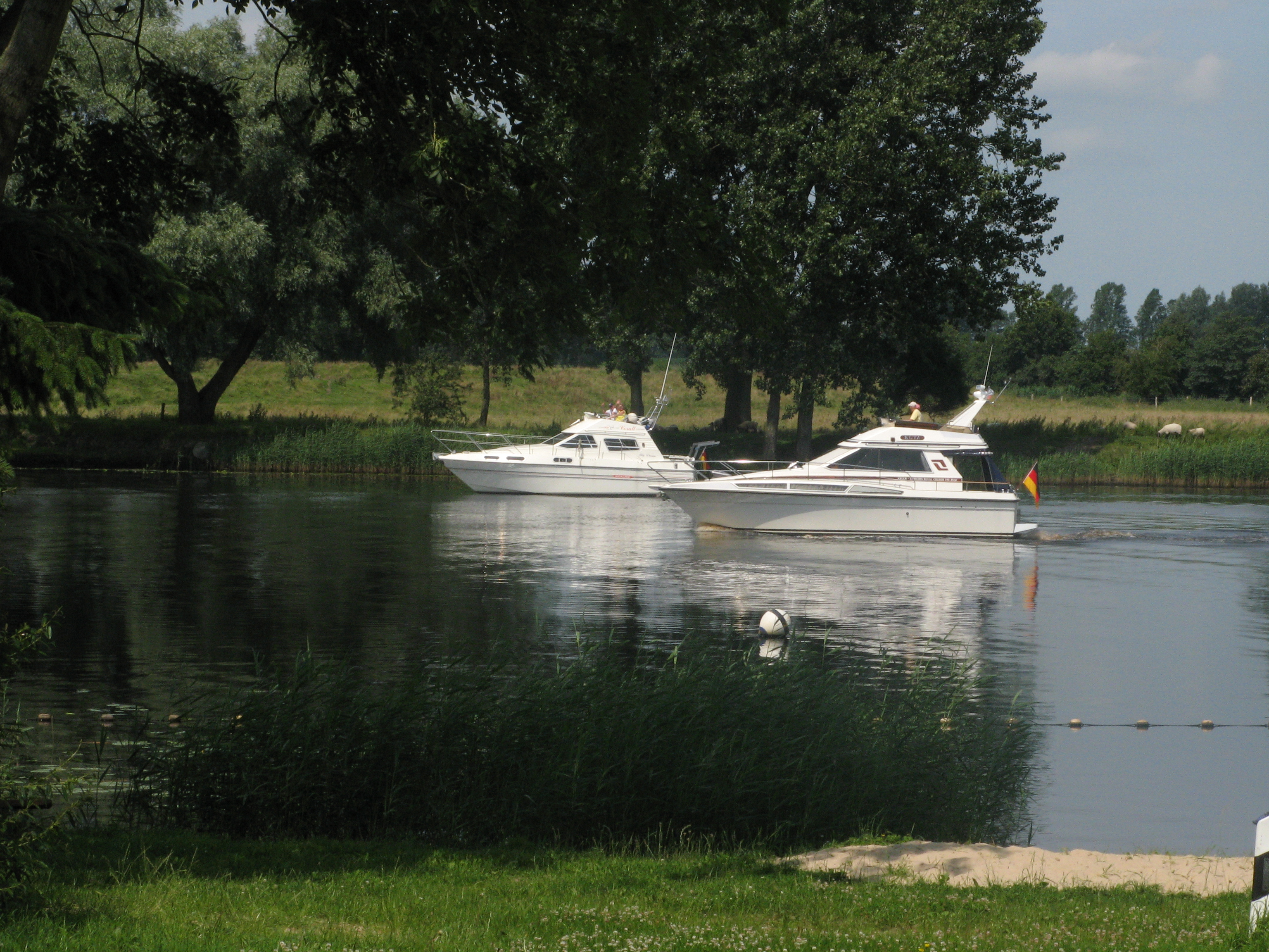 Boats in Bargen on the Eider River